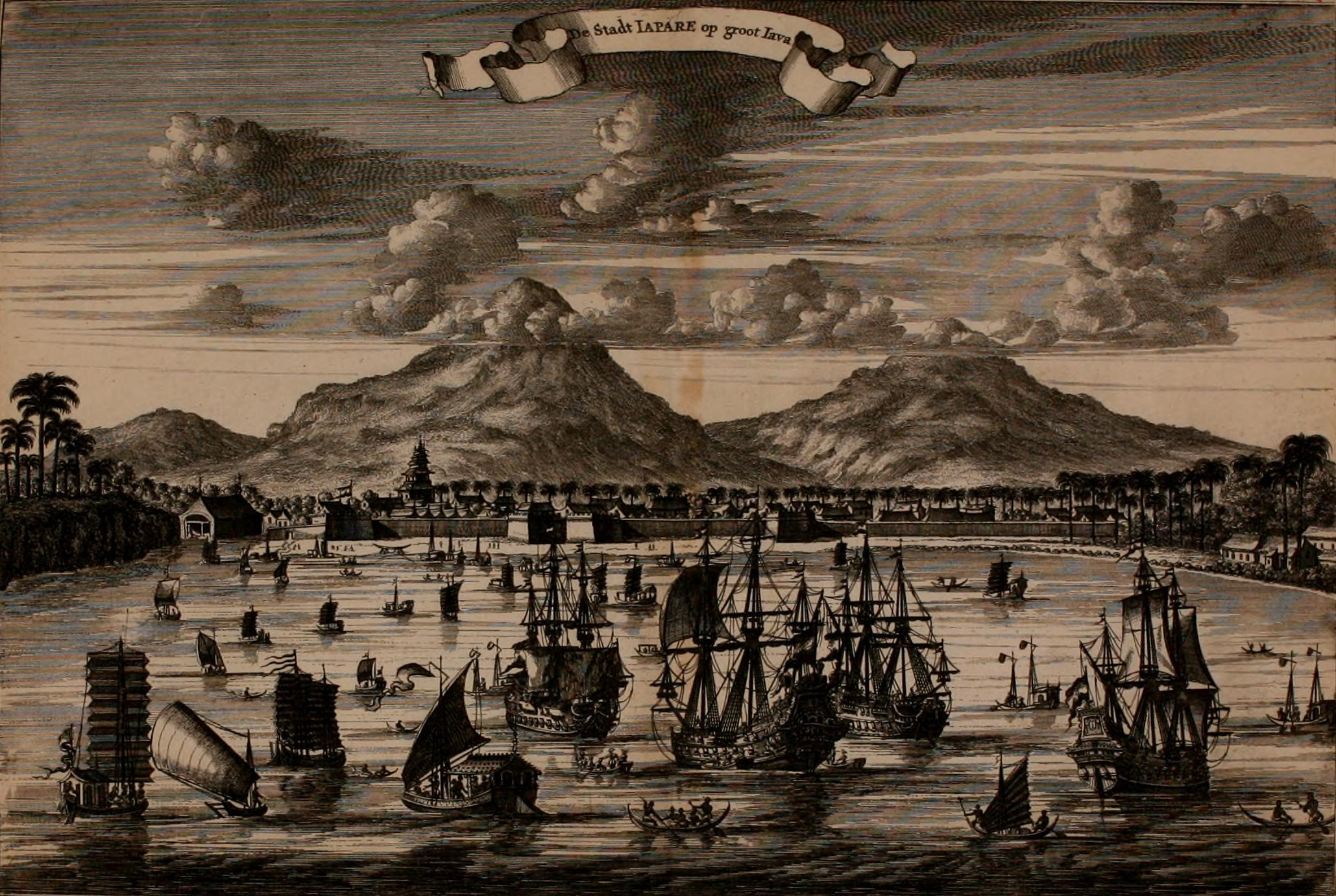 View from Sea on the City of Japare (today:Jepara) ca. 1650. In the background you can see the Mount Muria vulcano.